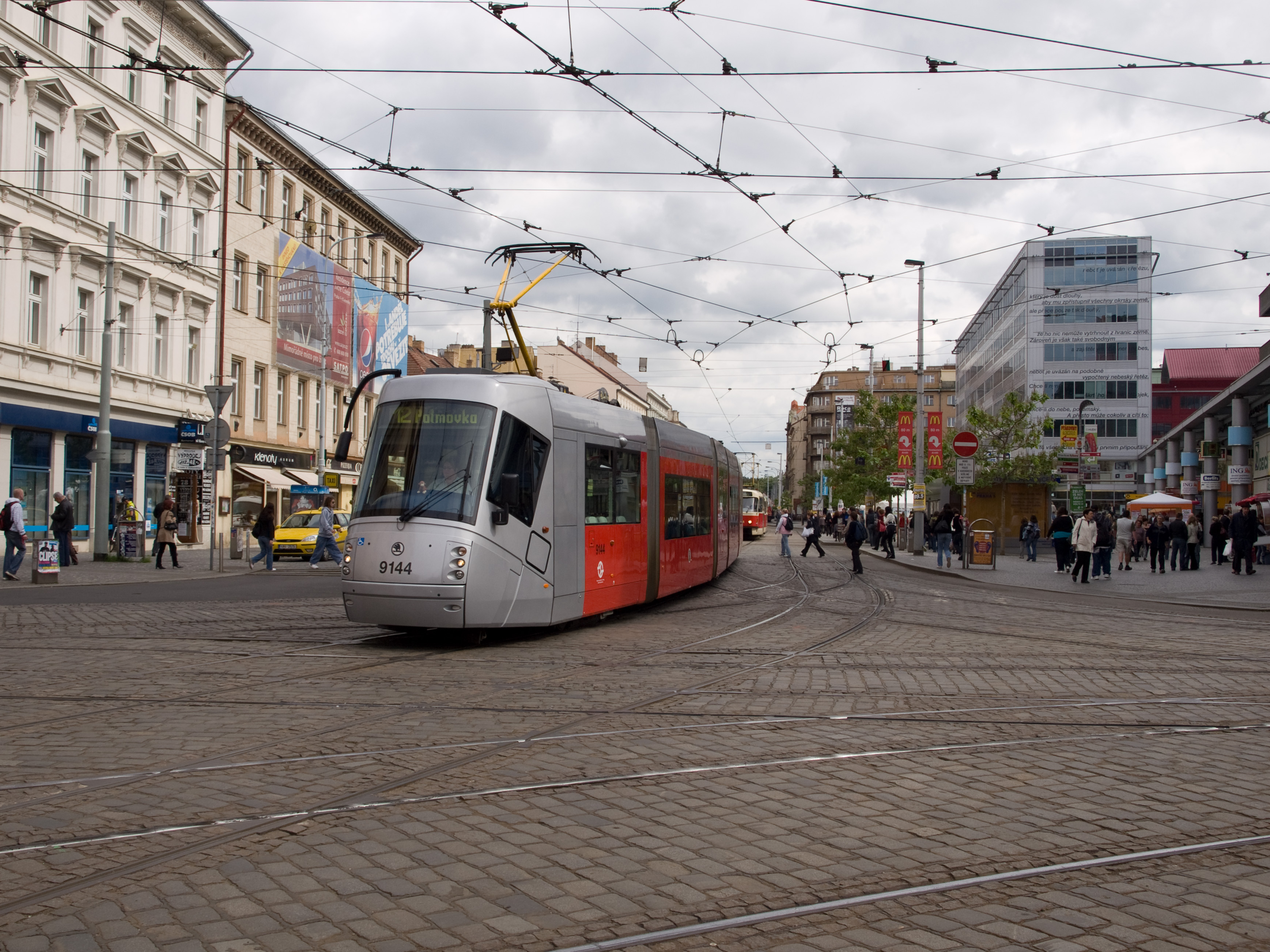 Škoda 14T near Anděl crossroad, tram track Anděl – Hlubočepy the day before tram track reconstruction, segment between Anděl crossroad and tram stop Na Knížecí